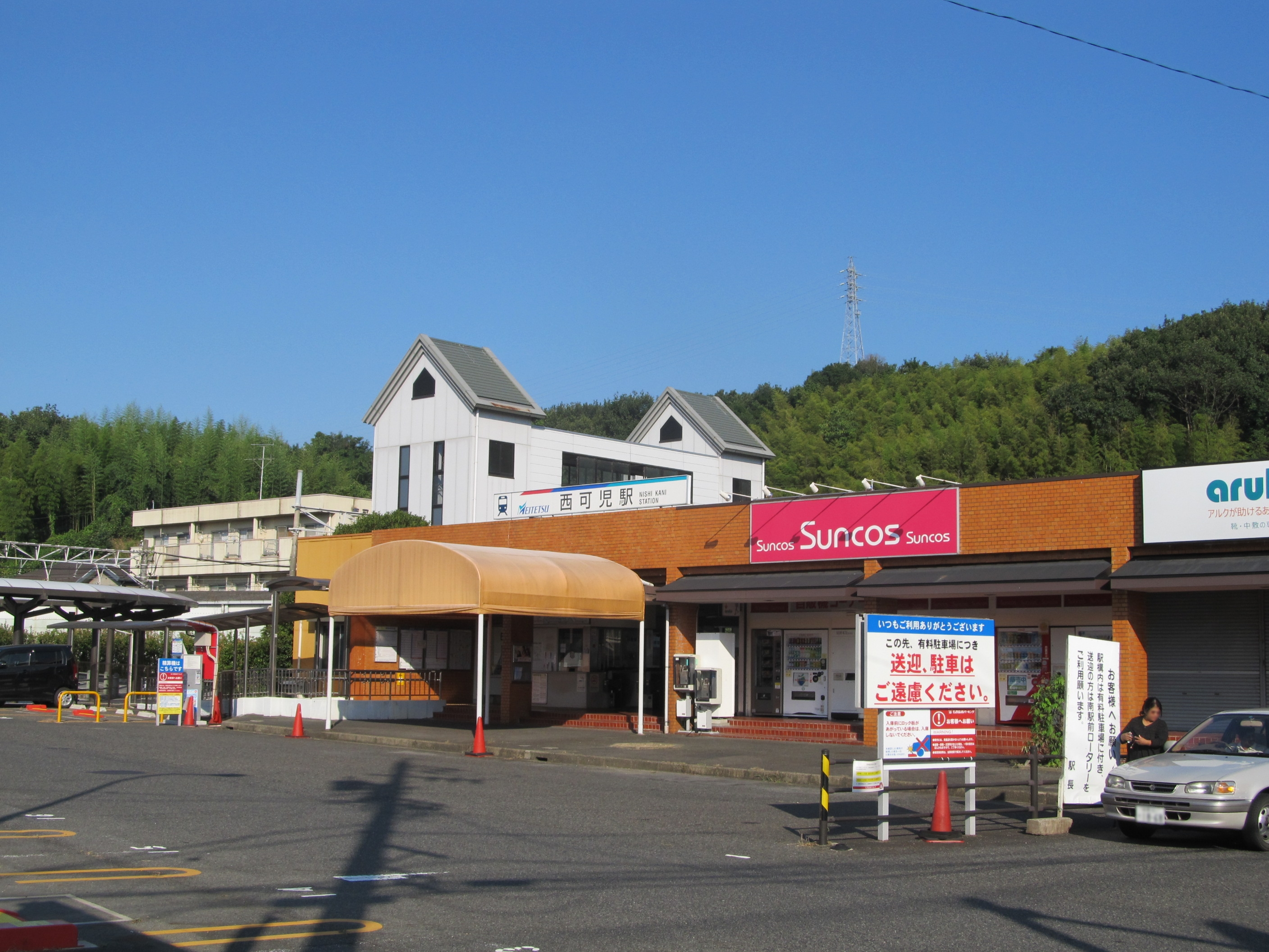 Nagoya Railroad Hiromi Line Nishi Kani Station Building